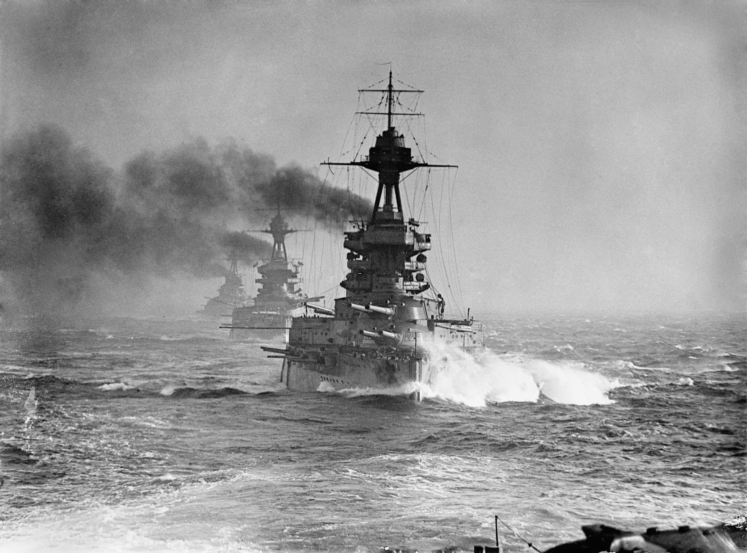 HMS BENBOW with other battleships in line ahead.